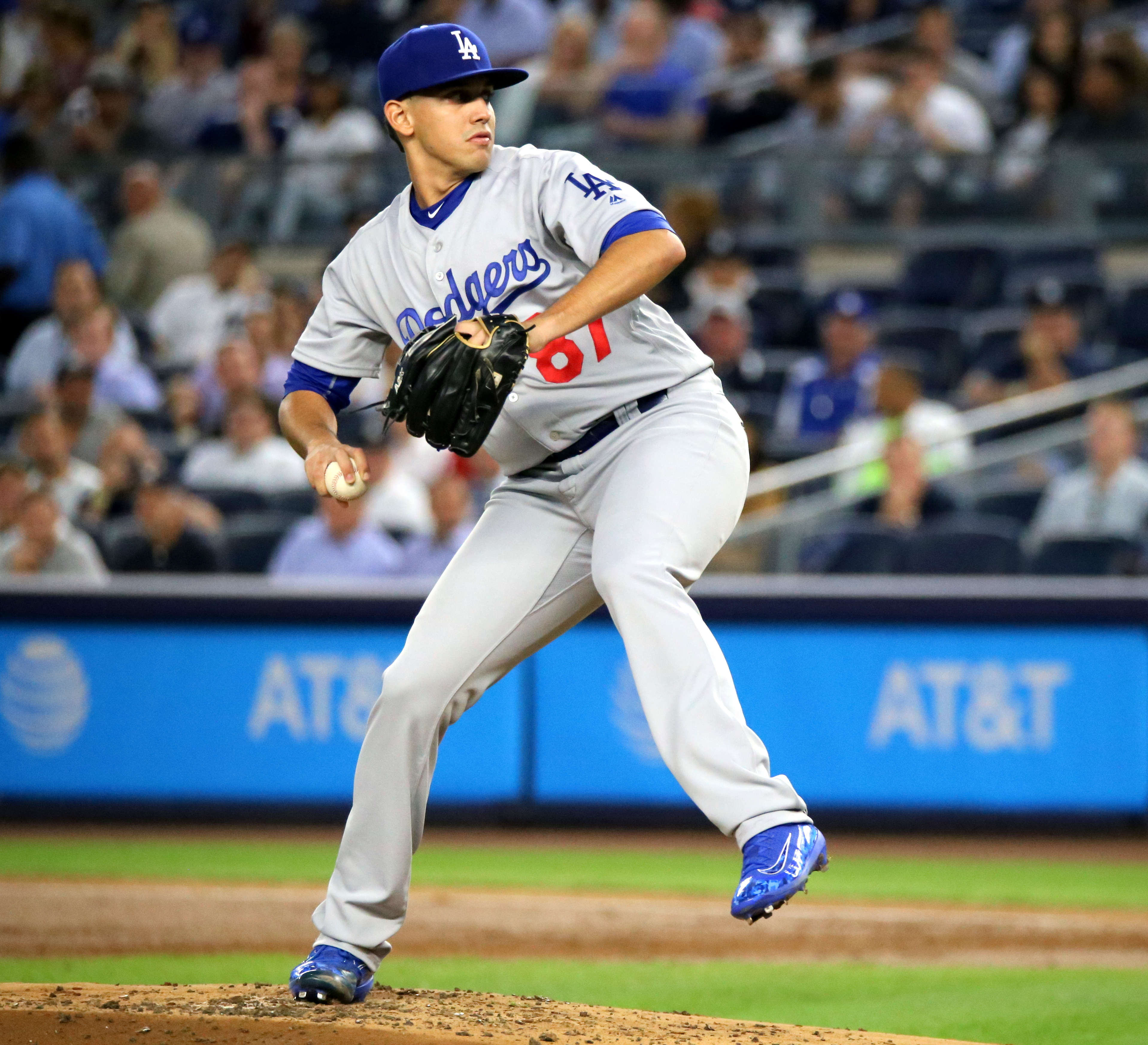 Dodgers starter Jose De Leon throws a pitch in the first inning.